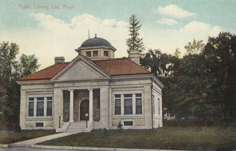 Public library, Lee, Massachusetts. Designed by Henry S. Moul of Hudson, New York and erected in 1907, it is the only remaining Carnegie library building in the Berkshires.